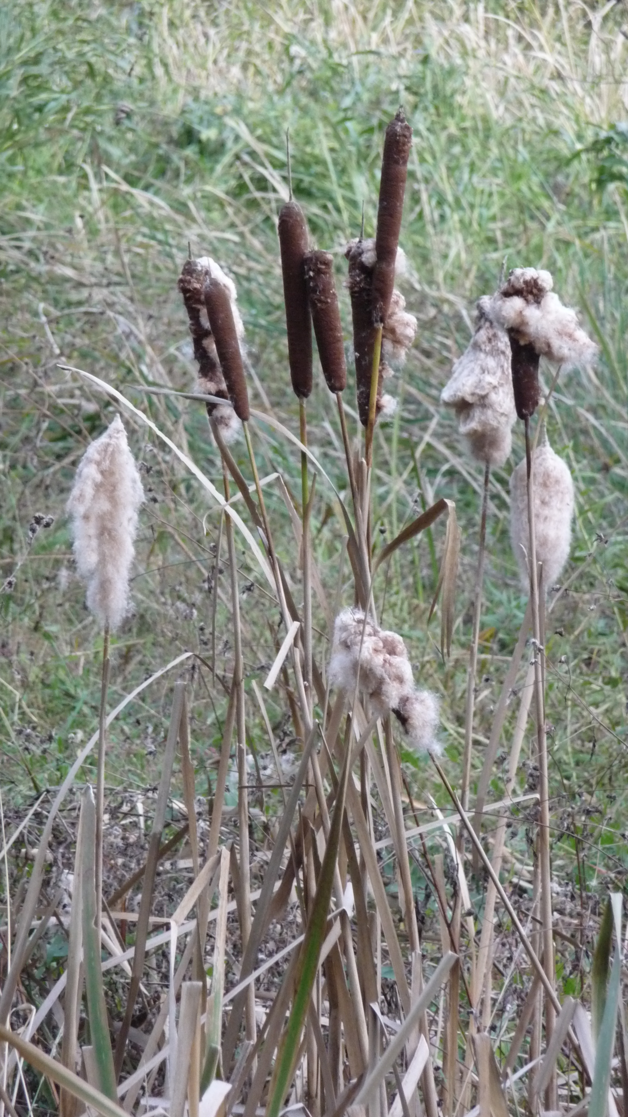 Typha (Japanese:蒲) with/without cotton like seeds in Chiba Japan in November. Cotton like seeds was used for Futon (Japanese:布団 or old kanji form 蒲団) which is based on 蒲